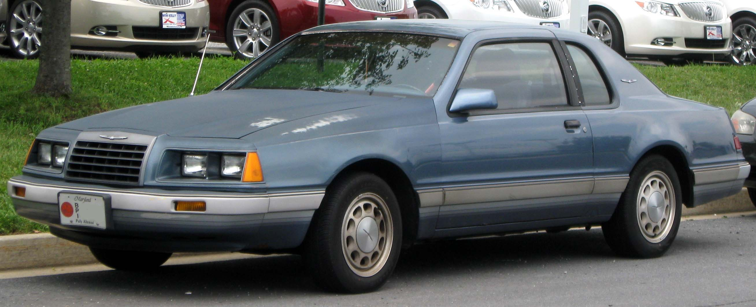 1983-1986 Ford Thunderbird photographed in Clarksville, Maryland, USA.